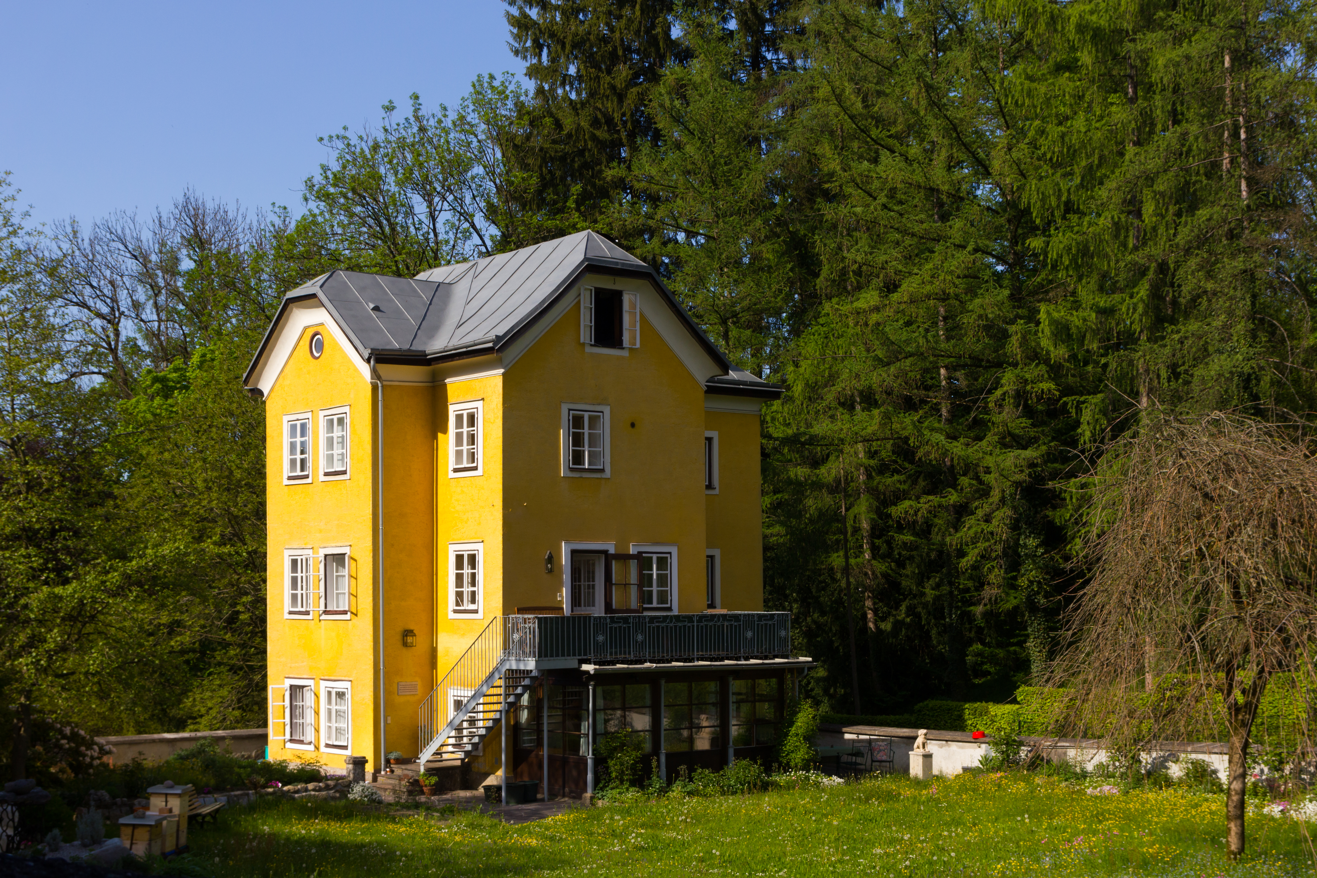 The Abtsturm in Salzburg